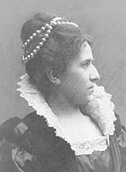 the finnish artrice Kaarola Avellaan (1853-1939) as she was young.